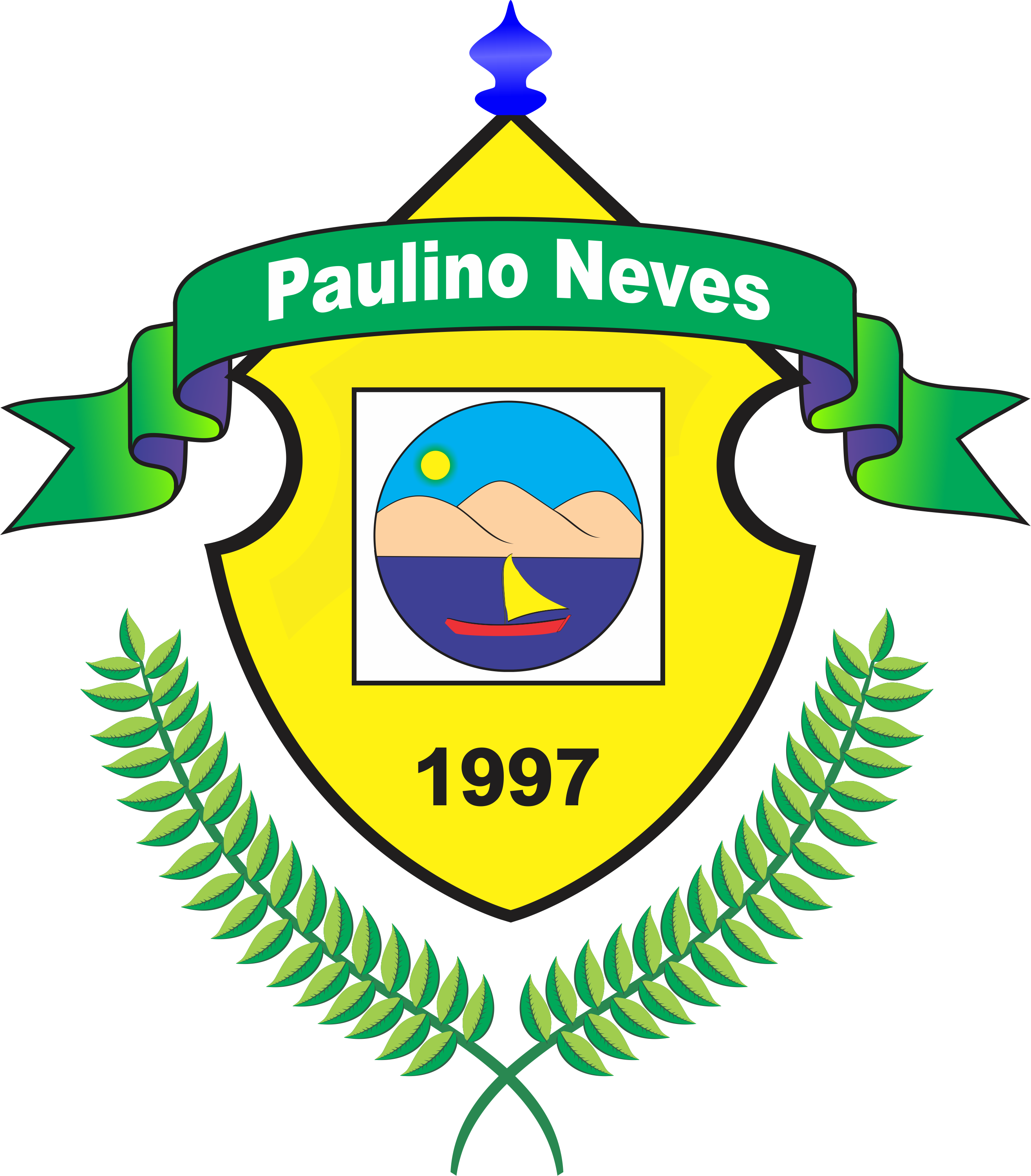 Municipal Symbols, Yellow coat of arms representing the natural wealth that exists in the region, like the small sheets, we have the dunes in the center, with the sun and a canoe in the lake.